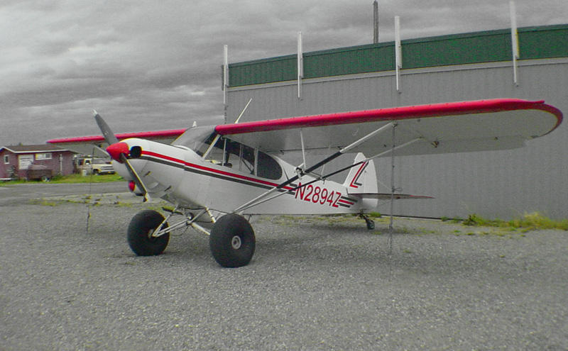 Piper PA-18A 150 with tundra Tires. A Google search on the registration number dates its construction to 1959. Anchorage, AK 2003